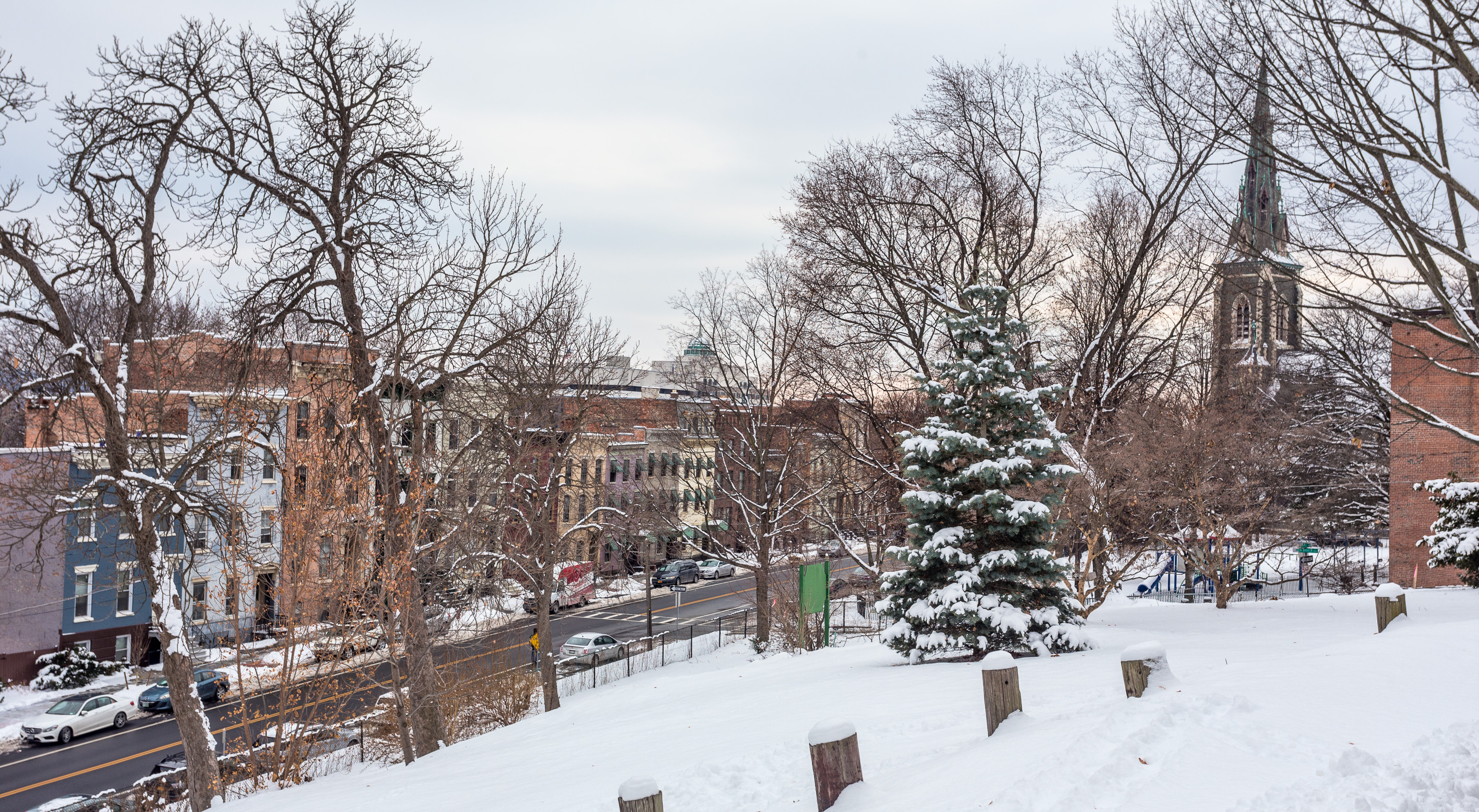 Looking down at Ten Broeck Street and St. Joseph Church in the Ten Broeck Triangle neighborhood covered in snow. Albany New York